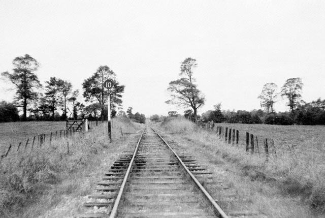 Wrington Railway. This railway ran from the Cheddar Valley line at Congresbury to Blagdon. Now long disappeared.